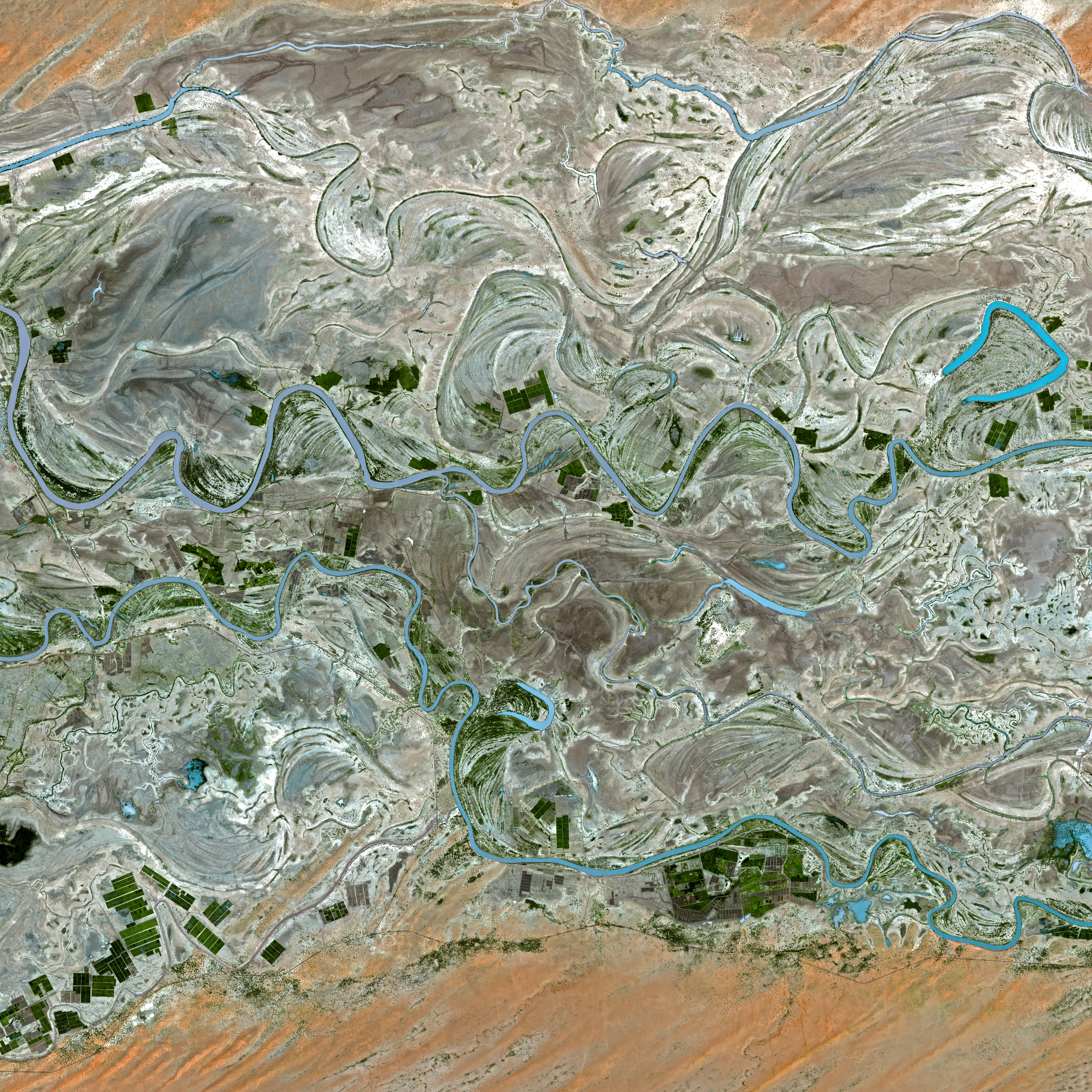 Senegal River by SPOT Satellite